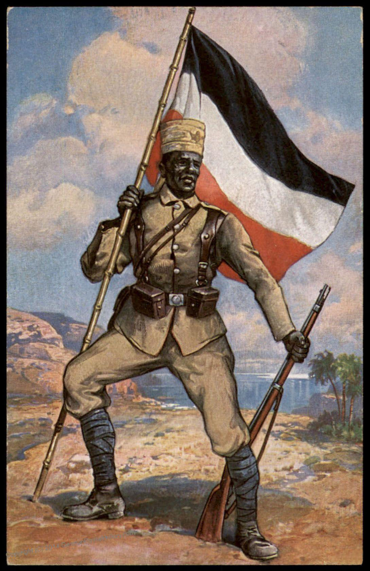 German East Africa WWI Patriotic Kolonialkriegerdank donation postcard. "Askari from German East Africa".